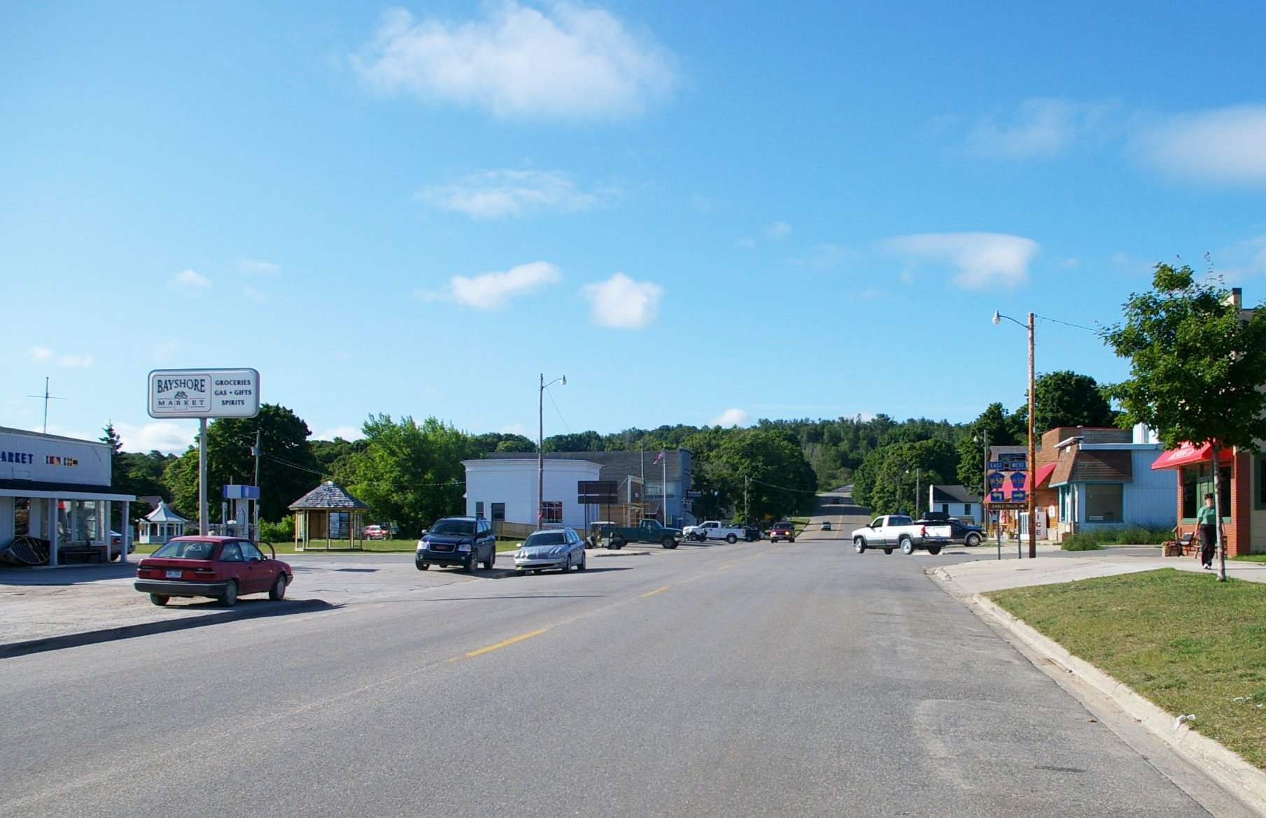 View of the main road in Grand Marais, MI.